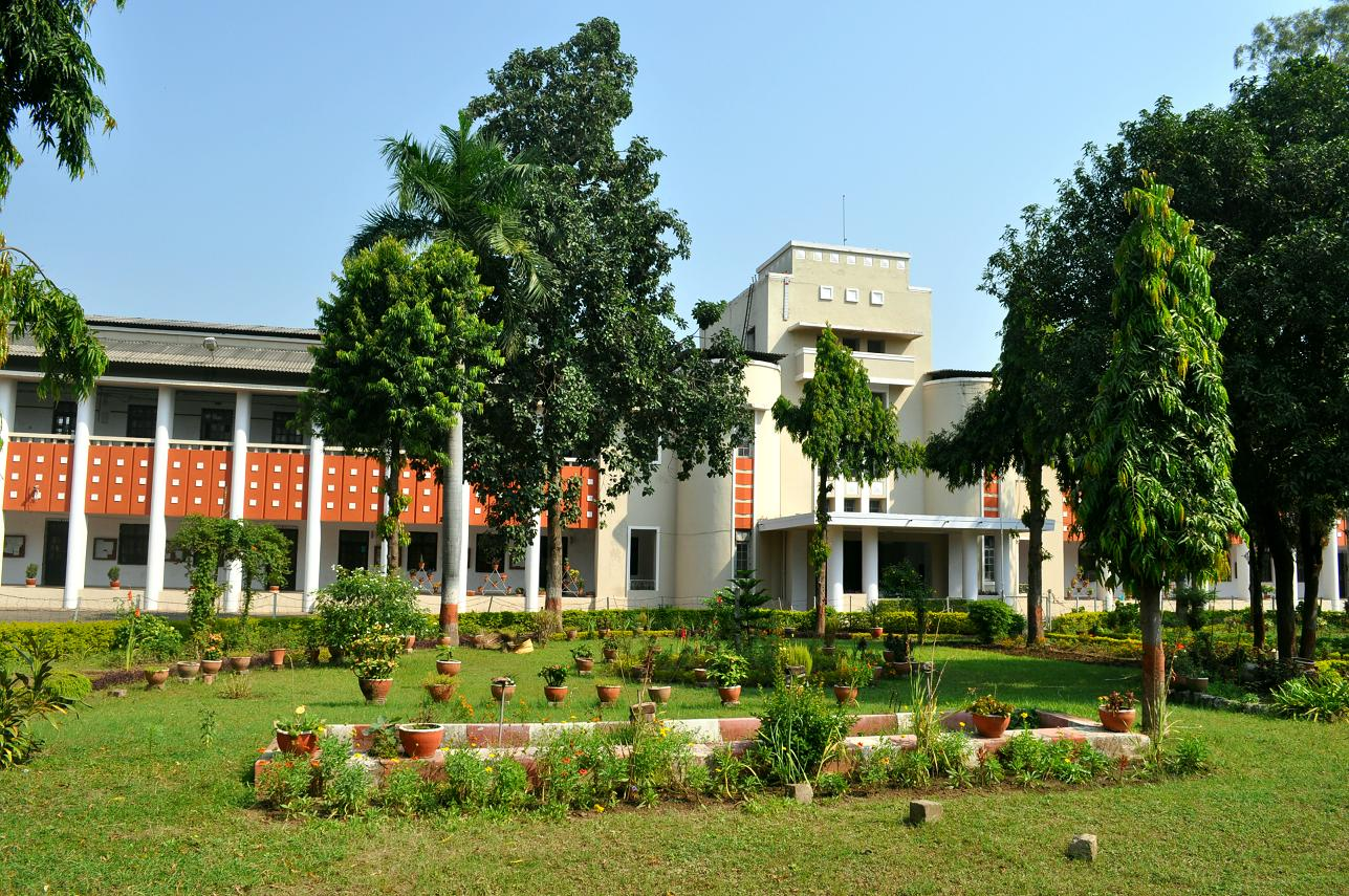 Jabalpur Engineering College (JEC)'s Administrative Building.